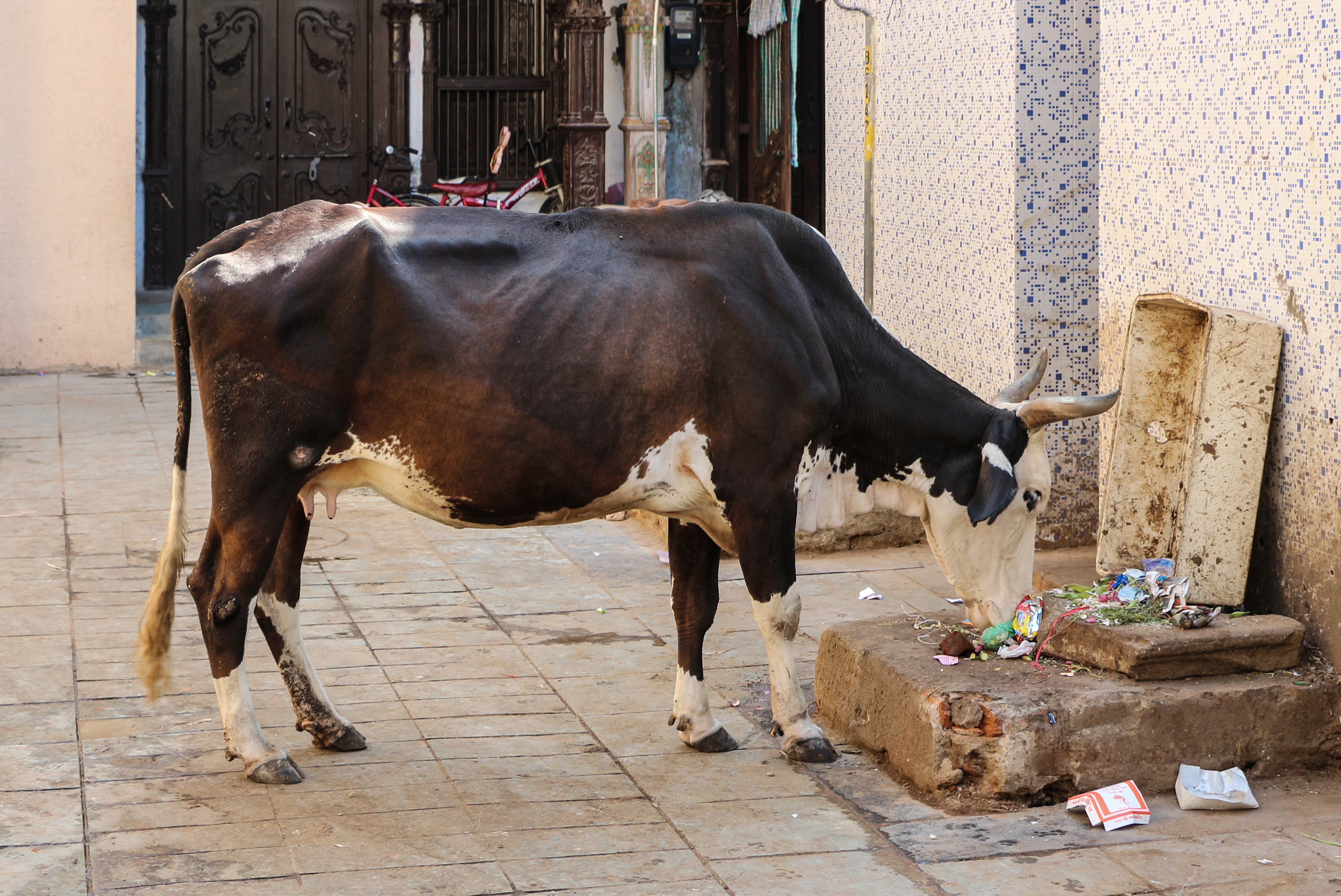 Sacred cow in Ahmedabad, India